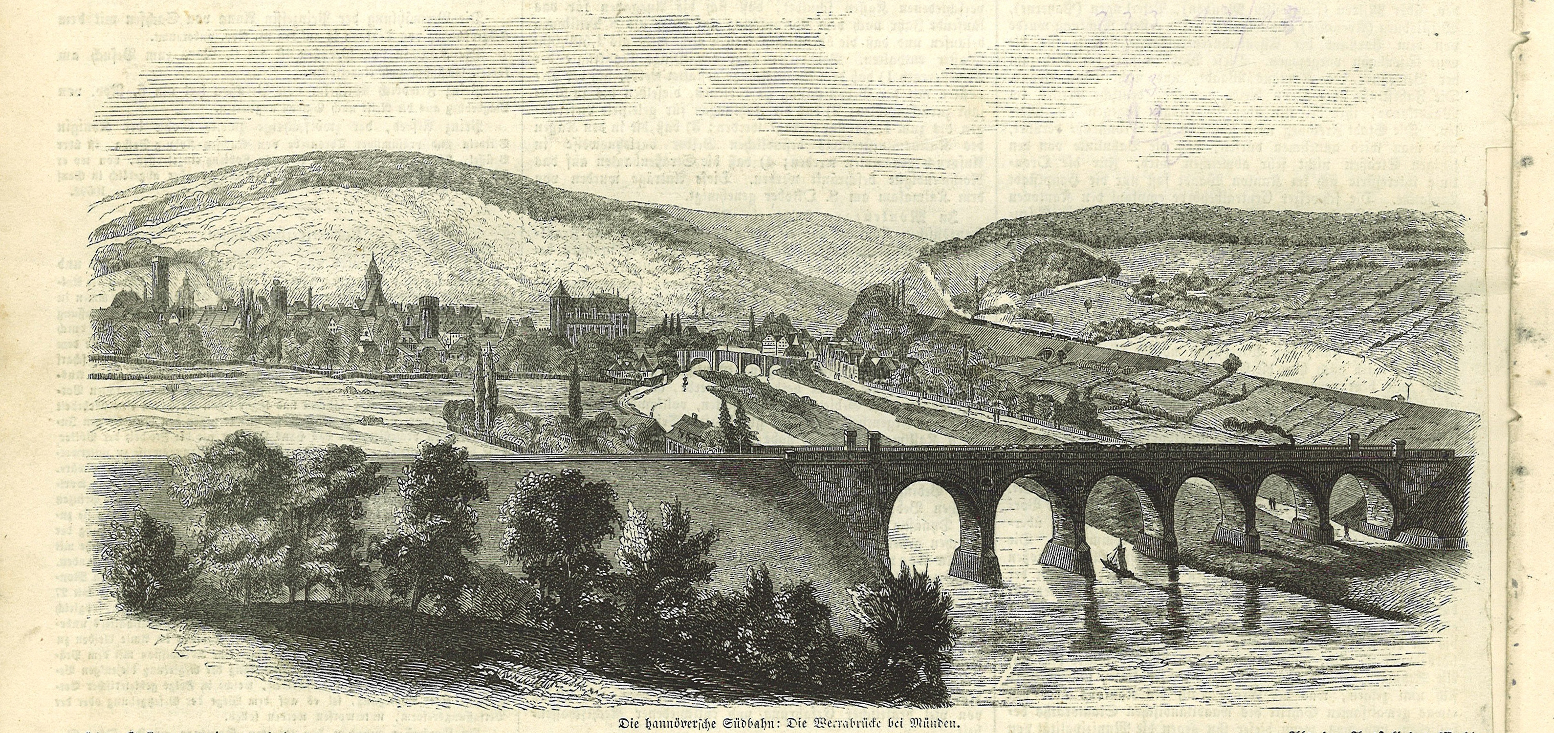 The Werrabridge at Münden